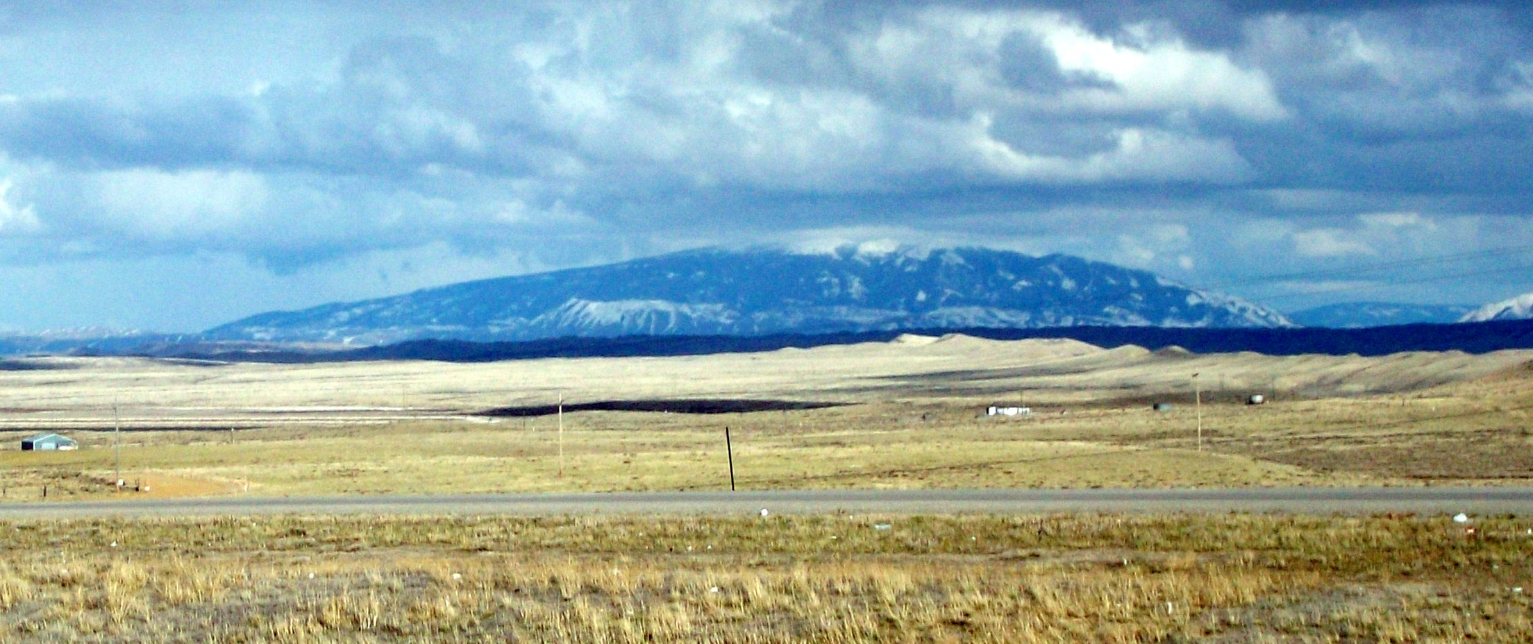 Elk Mountain, as seen from Rawlins, Wyoming. The mountain still had a fair amount of snow in late April 2011.